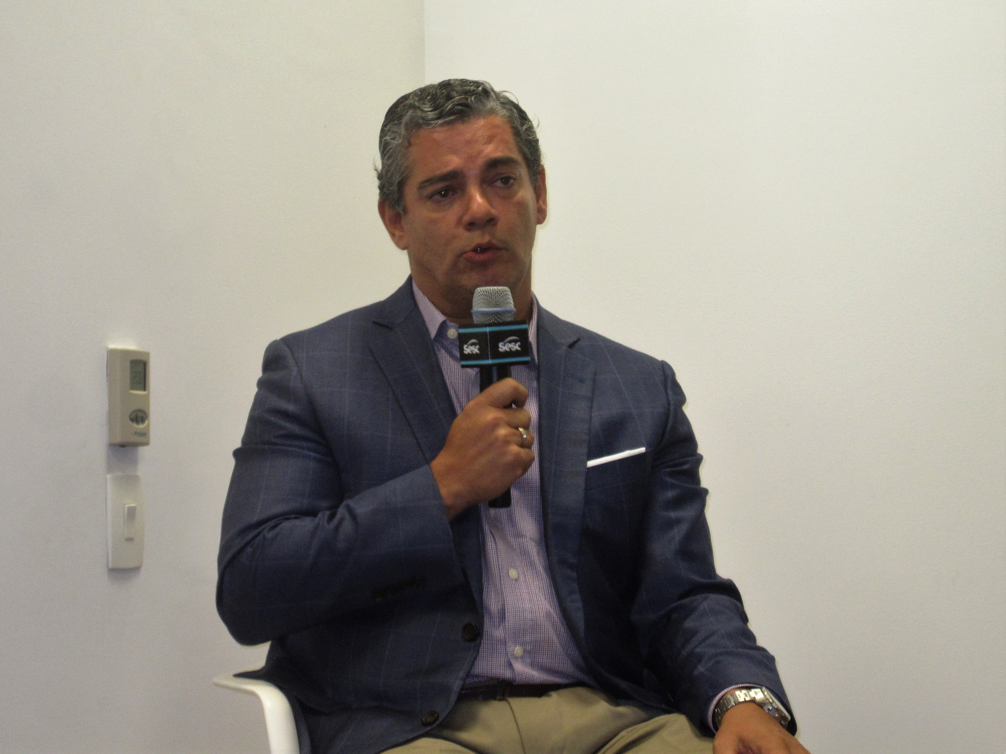 Marcos Prado Troyjo taking part of a seminary in São Paulo, Brazil.